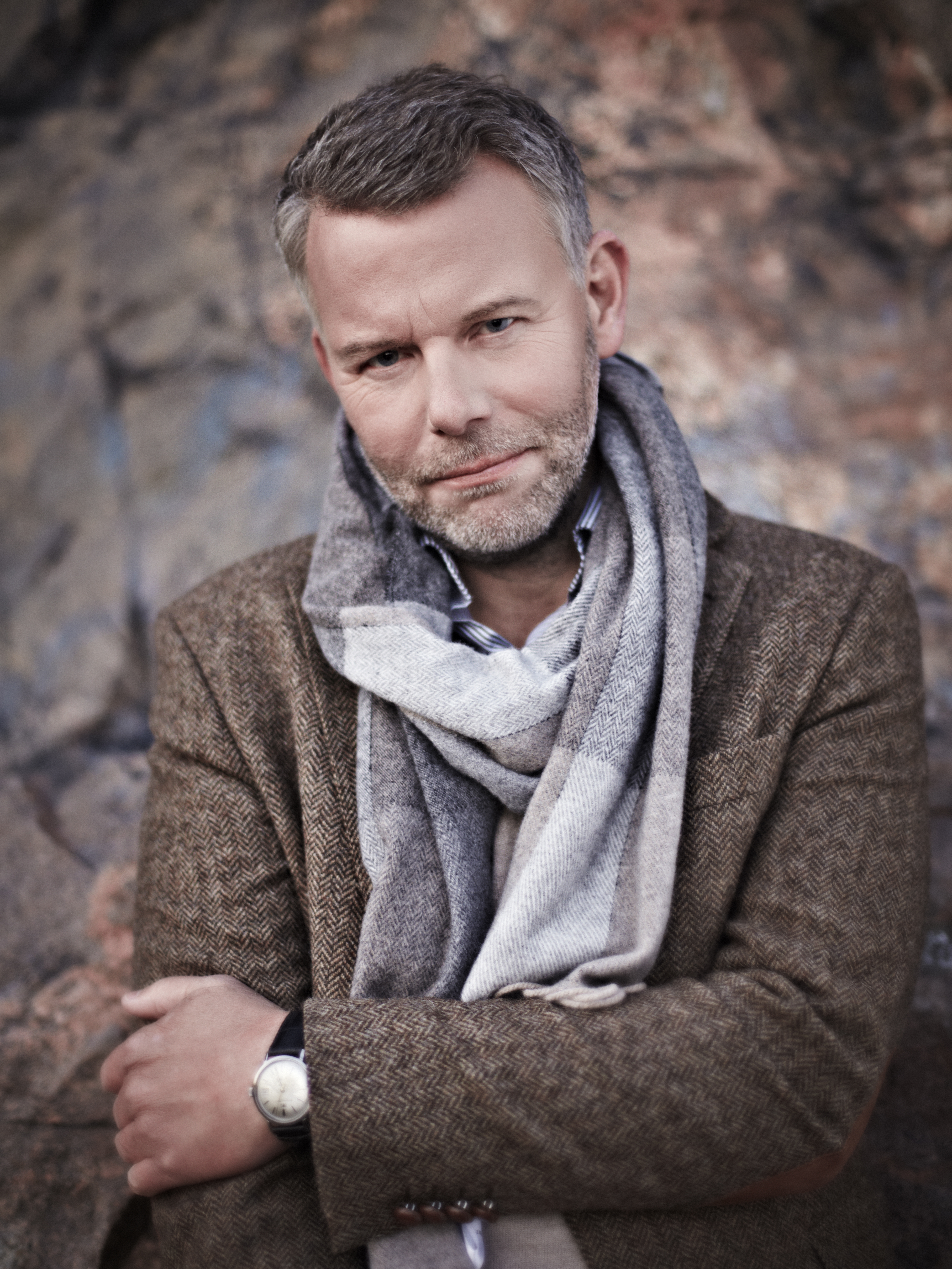 Portrait of the Swedish crime writer Arne Dahl